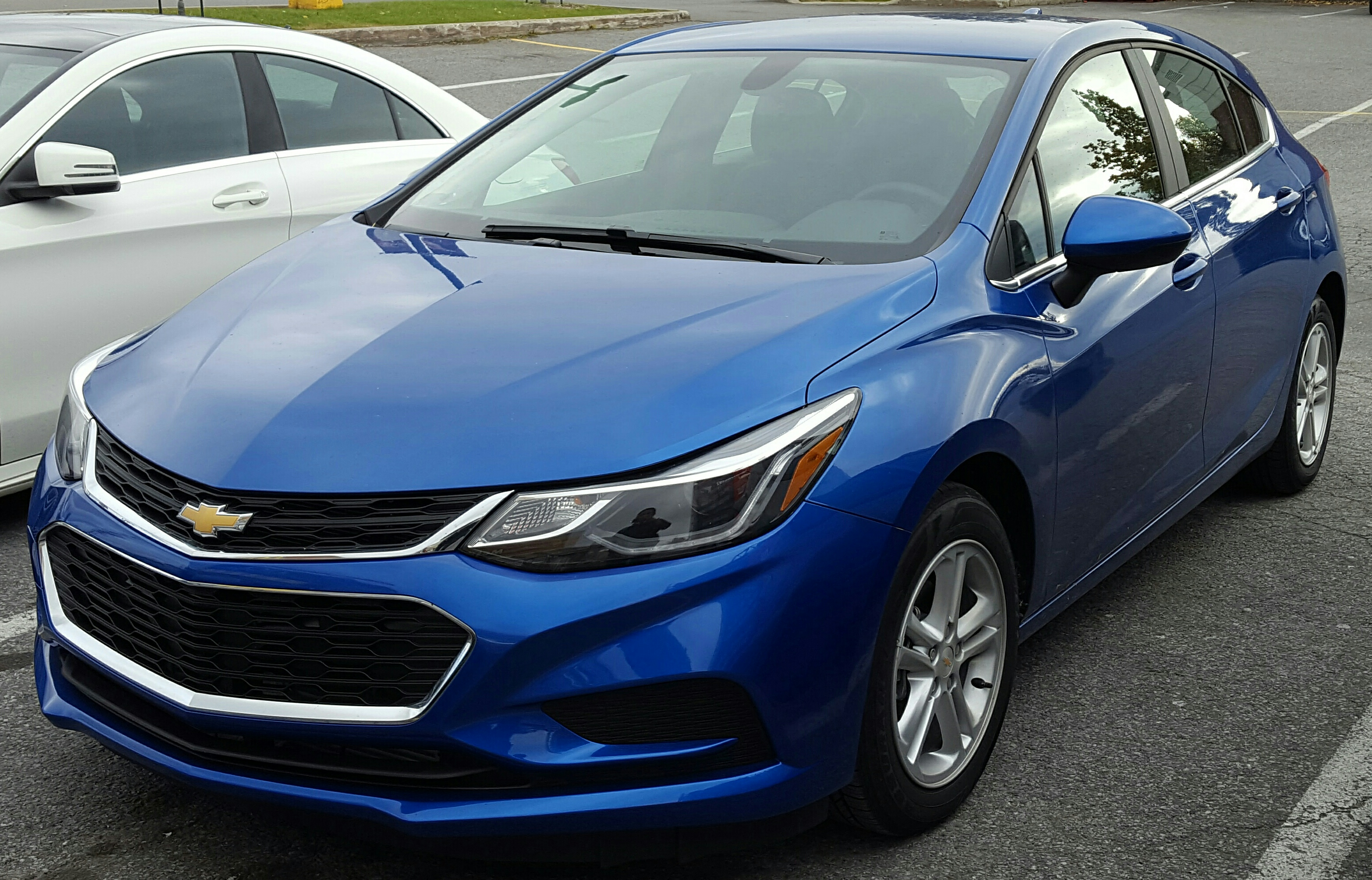 2017 Chevrolet Cruze photographed in Montreal, Quebec, Canada.